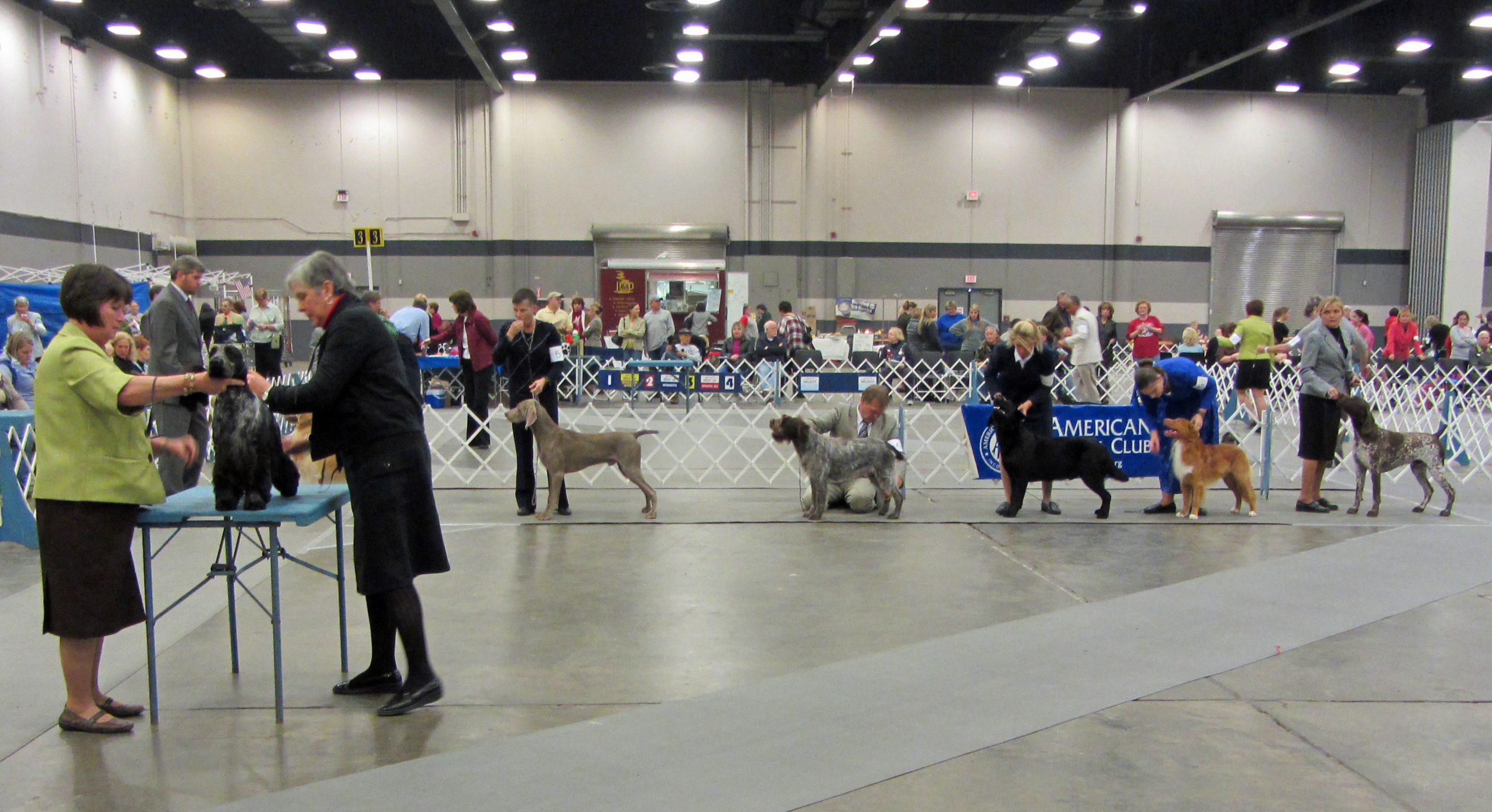 AKC Magnolia Christmas Classic Cluster. Jackson, Mississippi.